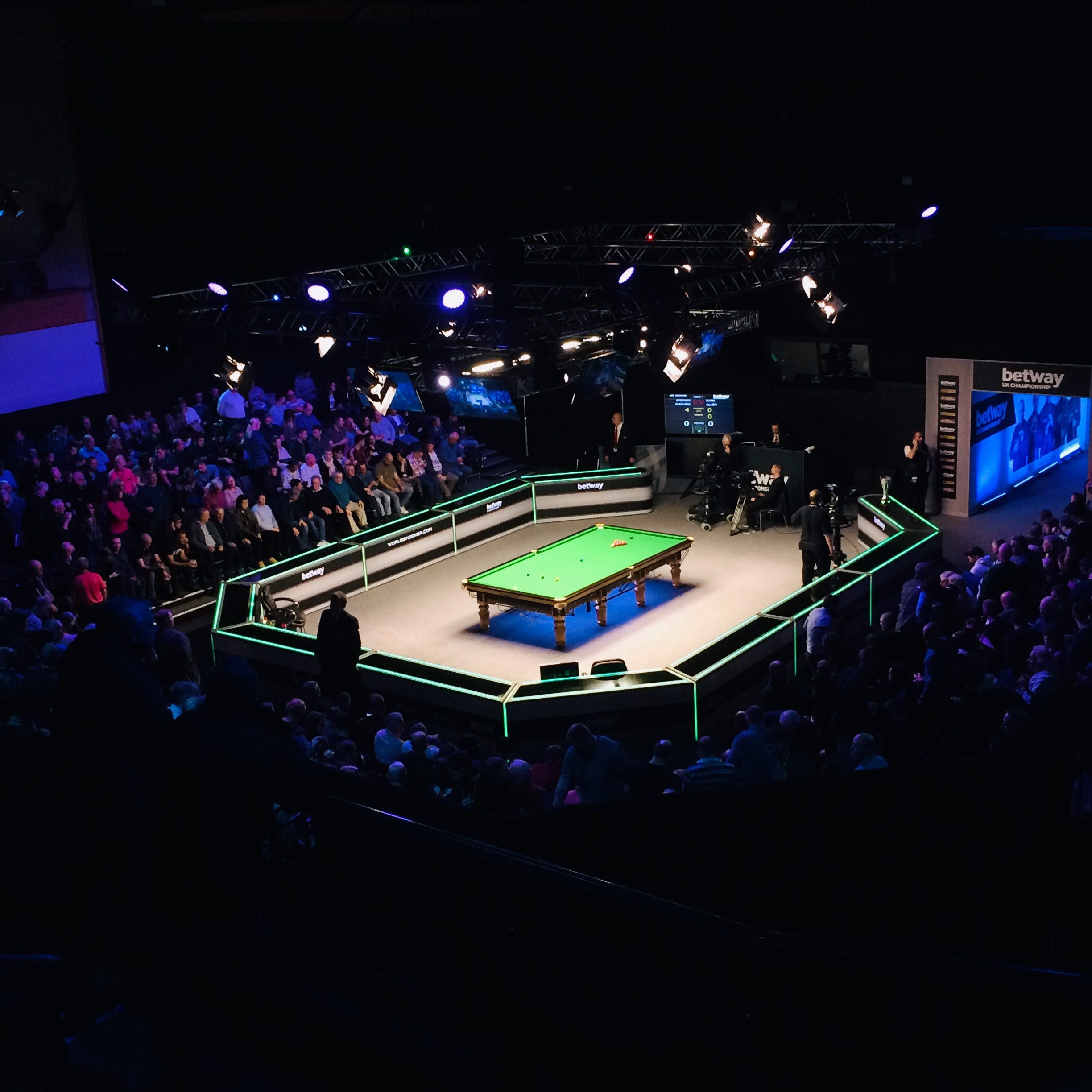 The auditorium at York Barbican during the interval of the second semifinal match between Stephen Maguire and Mark Allen at the U.K. snooker championship on Saturday, 7th December 2019. Stephen Maguire was leading 4-0 and went on to win the match 6 frames to nil.